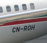 radio station aeronautical